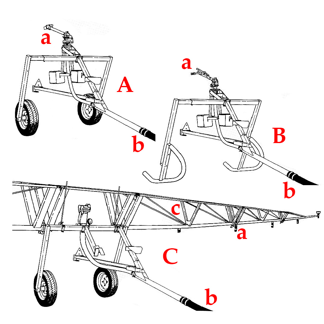 Traveling sprinklers